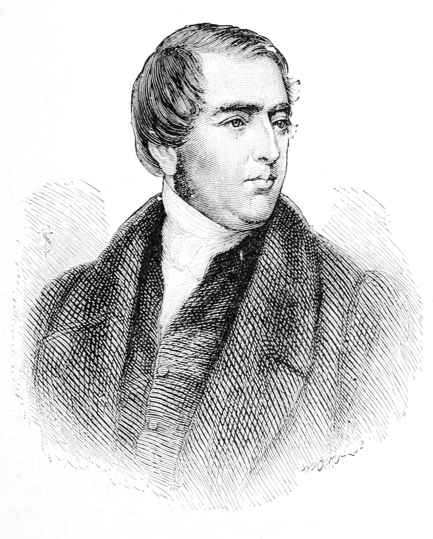 John Williams (1796–1839)